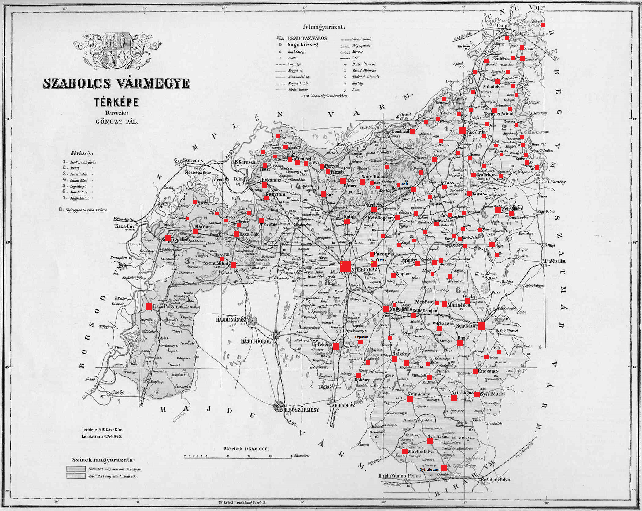 Ethnic map of the county (with data of the 1910 census). Key: red - Hungarians; light green - Slovaks; pink - Germans. Coloured dots in plain rectangles imply the presence of smaller minority populations (generally more than 100 people).